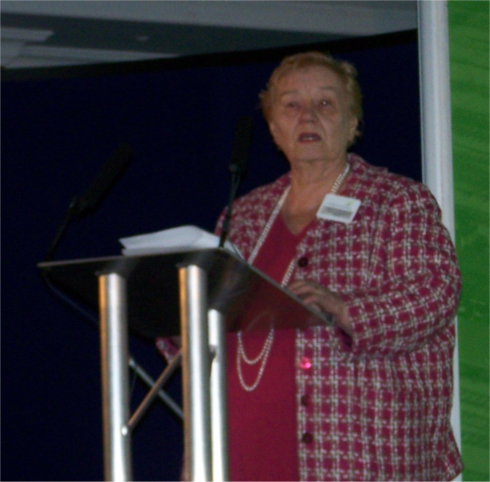 Gwyneth Dunwoody takes her keynote speech at 3rd Railway Community Safety Forum, in Solihull, on 19th March, 2008.